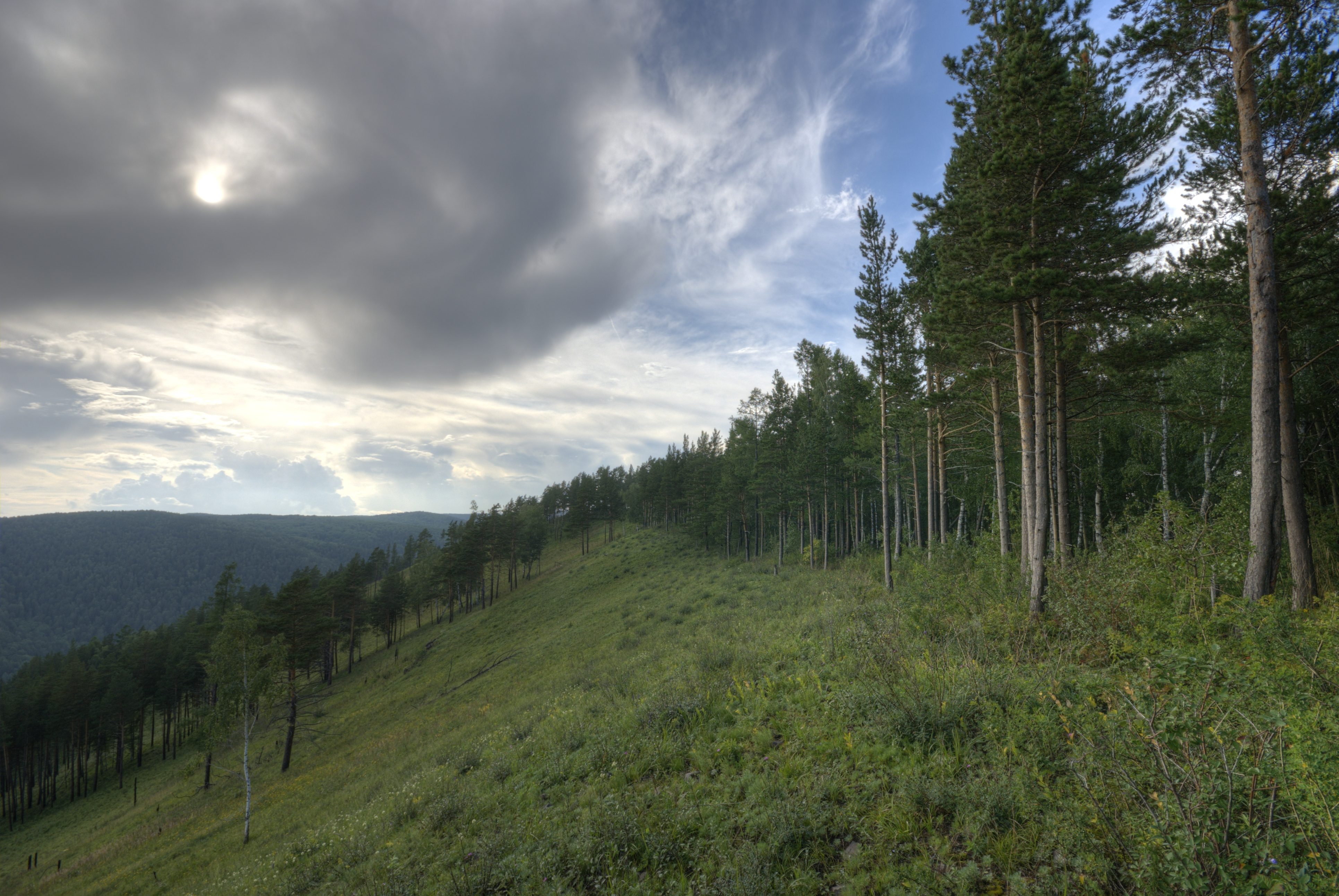 The taiga forest in the Yemelyanovo raion, Krasnoyarsk Krai.